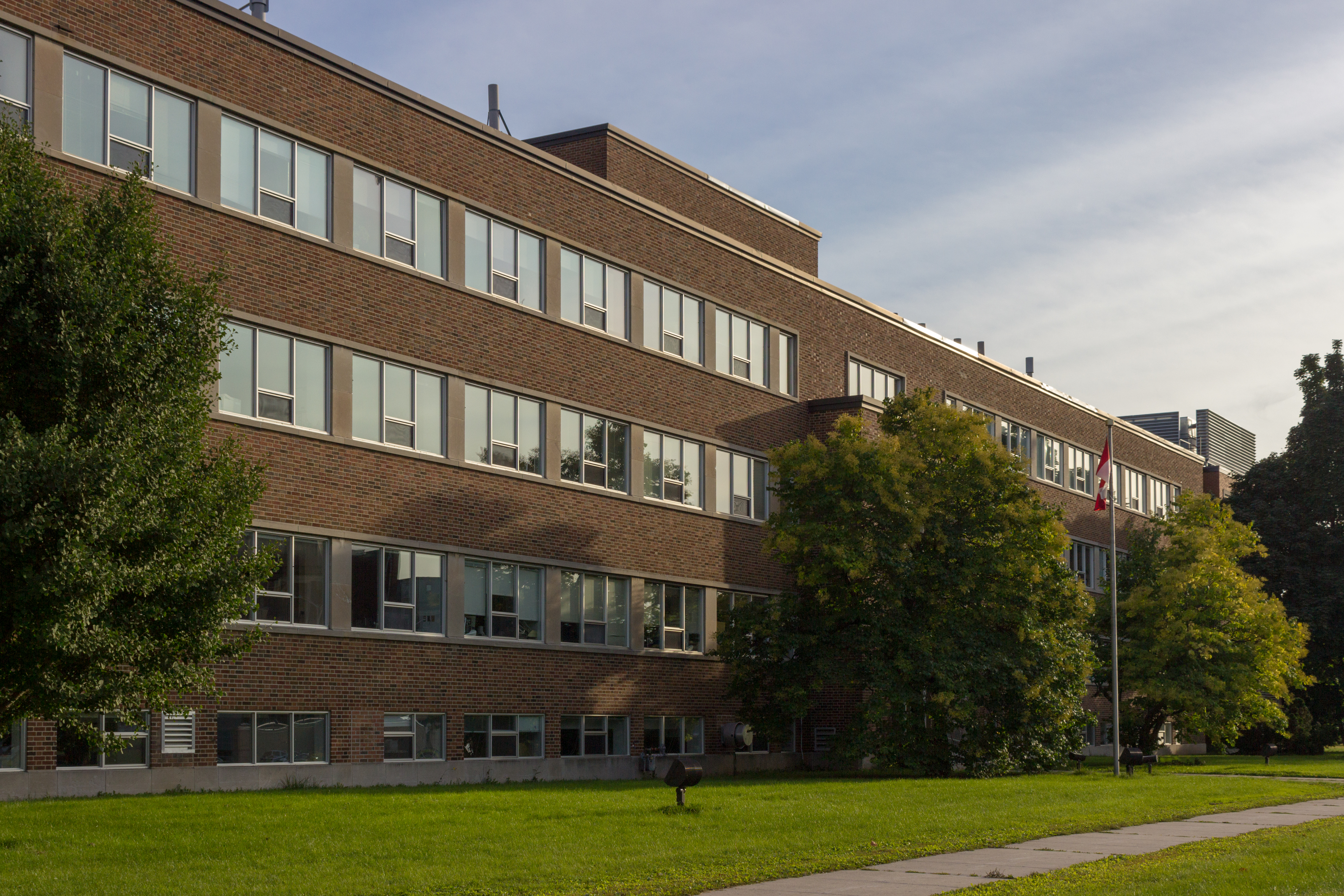 Ottawa Laboratory (Carling) of the Canadian Food Inspection Agency, Ottawa